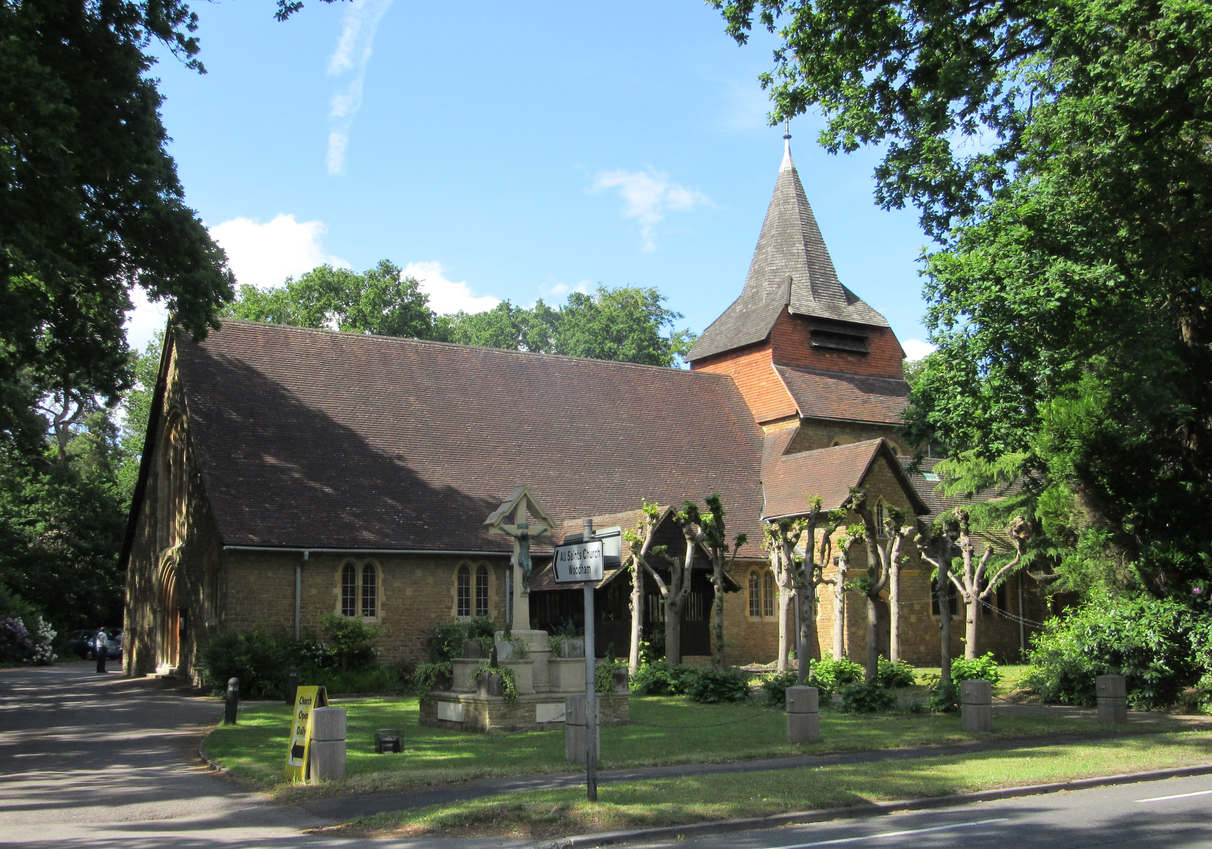 All Saints Church, Woodham Lane, Woodham, Borough of Woking, Surrey, England.